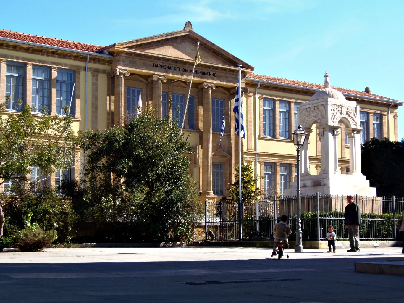 Faneromeni School and the marble mausoleum of executed 486 Cypriots of July 9, 1821 in Nicosia, Cyprus